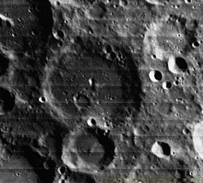 Rosenberger lunar crater - image LOIV 070 H3